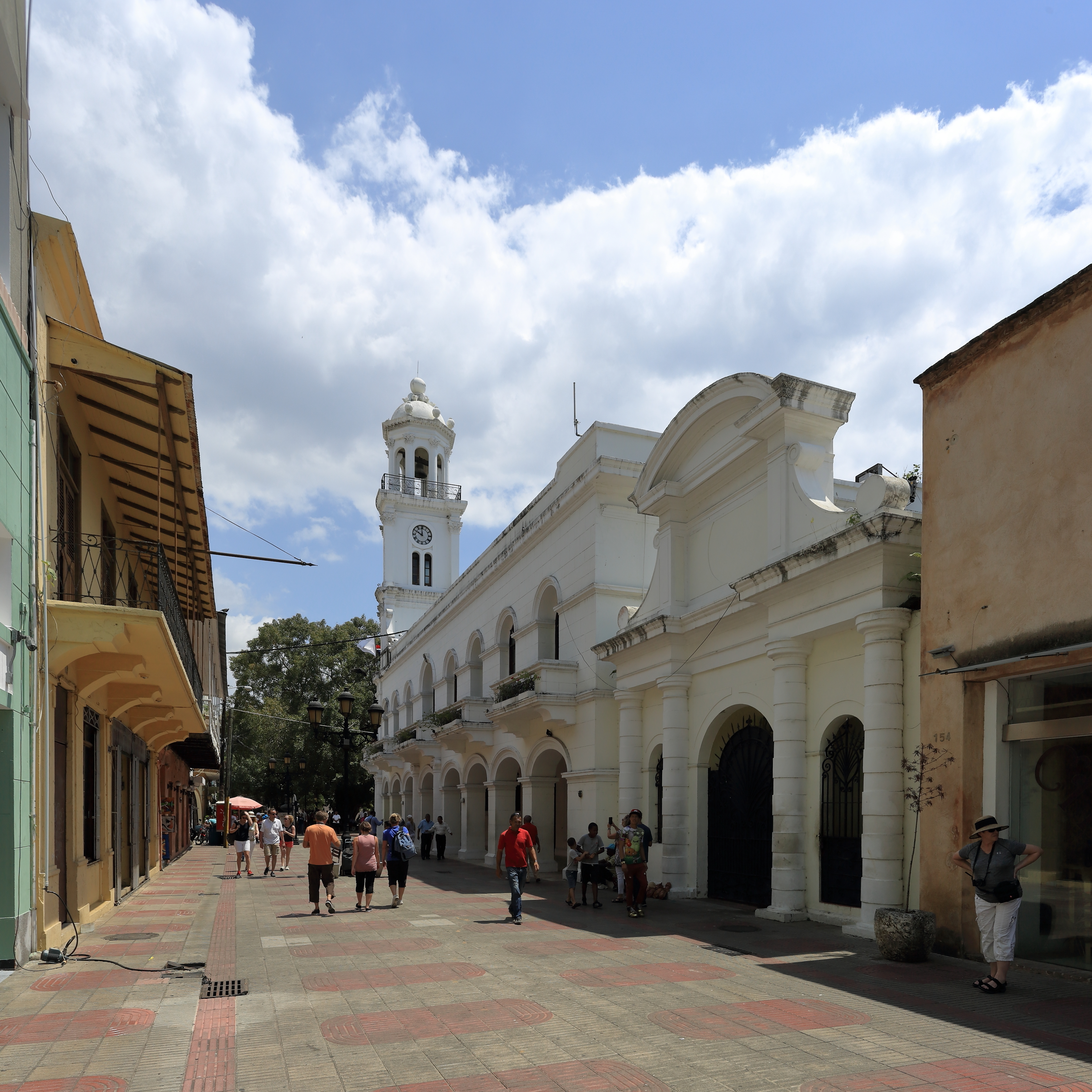 Santo Domingo - Calle El Conde with Palacio Consistorial, March 2016. Part of UNESCO World Heritage Site Ref. Number 526